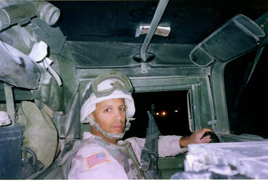 Spc. Joseph Roche of the 16th Engineer Battalion based in Giessen, Germany, prepares to go out on patrol in Baghdad, Iraq.